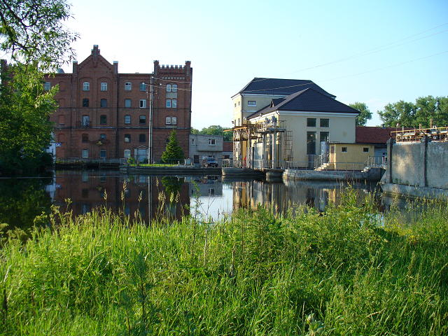 Angrapa River at Ozyorsk (Kaliningrad oblast, former Darkehmen). Photo by N. Ahting (User: Ballupoenen), June, 2006